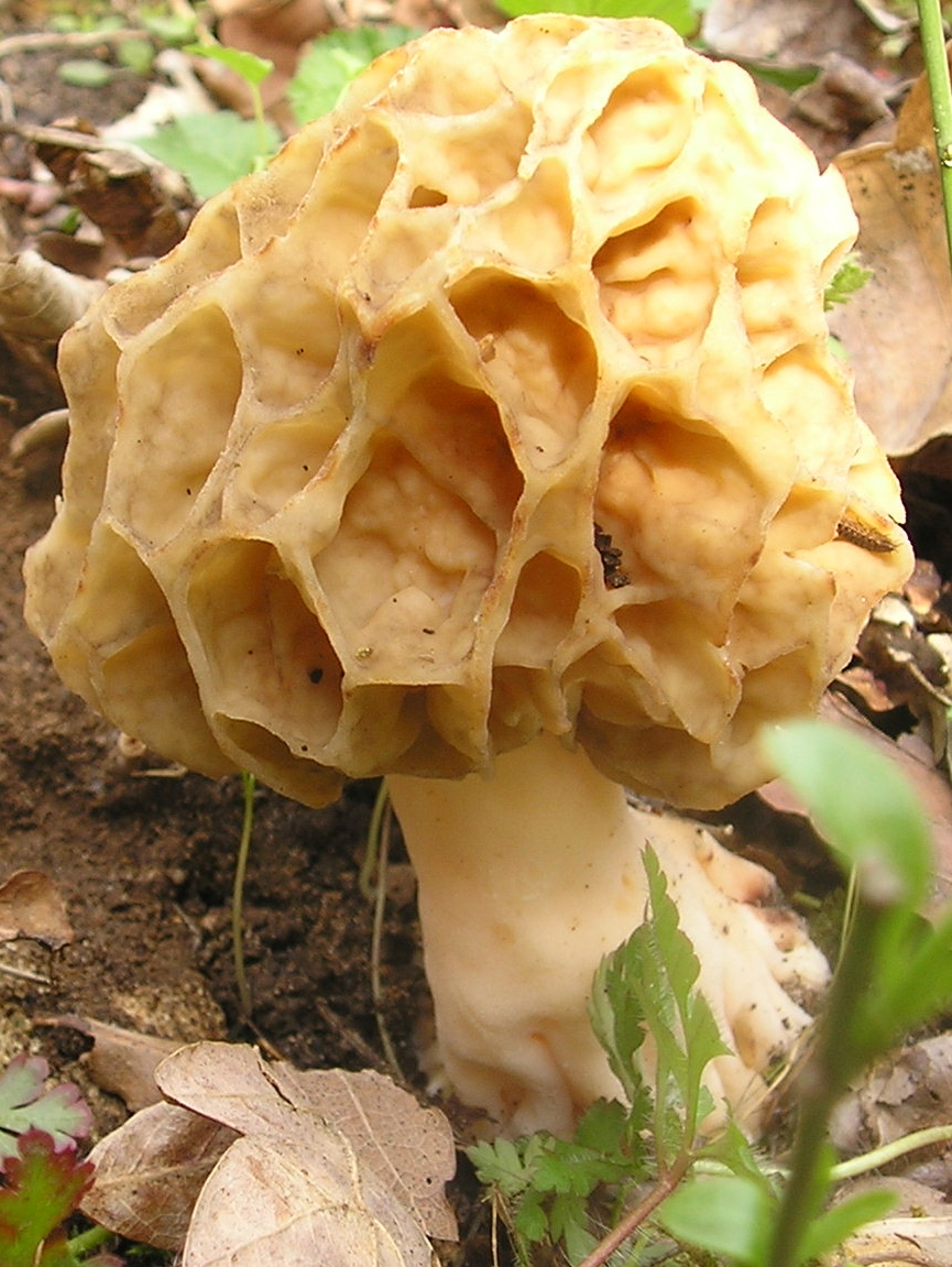 Morchella esculenta (= Morchella rotunda) in a French wood.